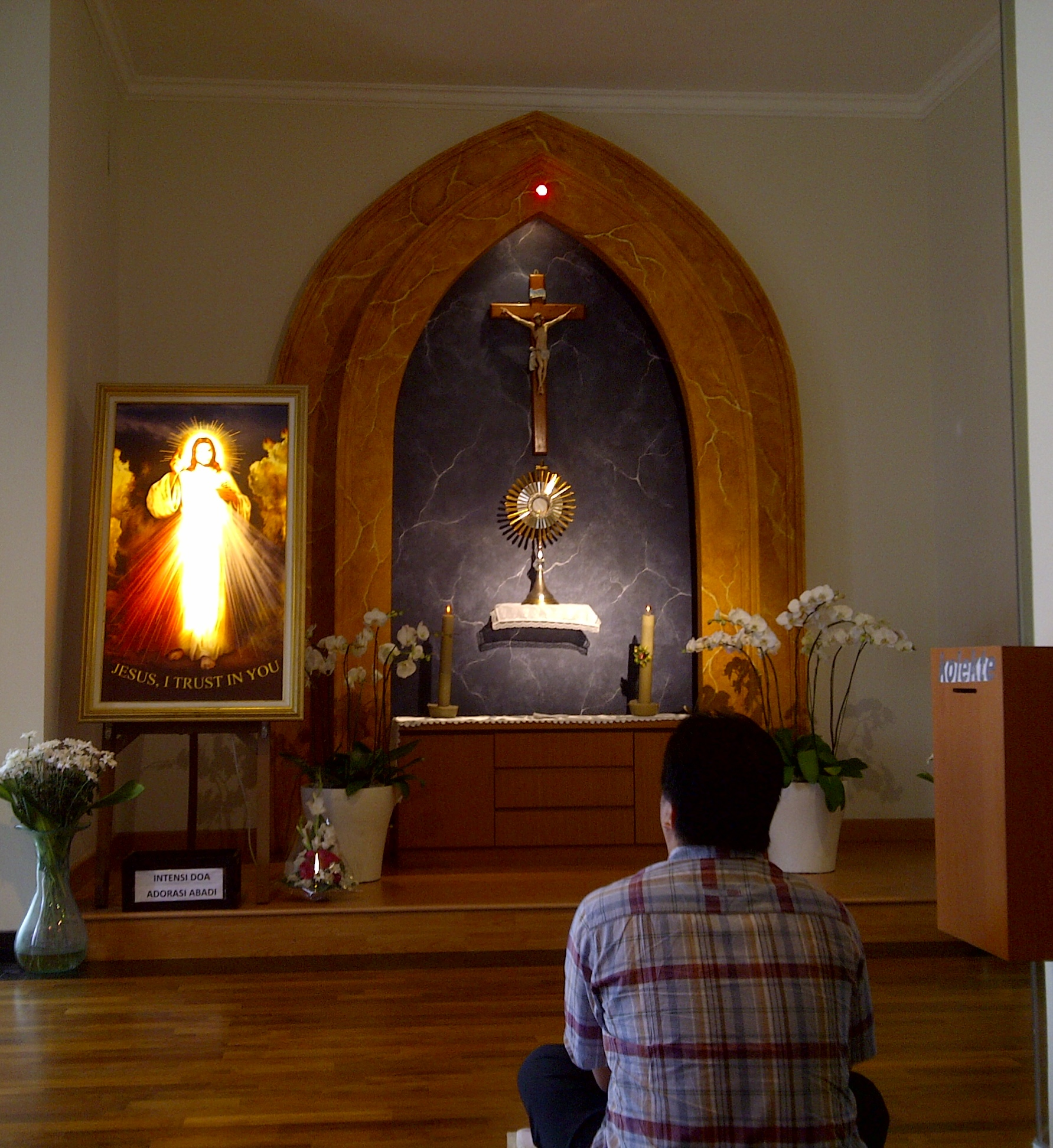 The adoration room at Francis Xavier Church, Kuta-Bali